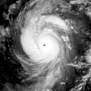 Super Typhoon Francisco during its peak intensity as JTWC assessed, on October 19, 2013, captured on the MTSAT-2 satellite.